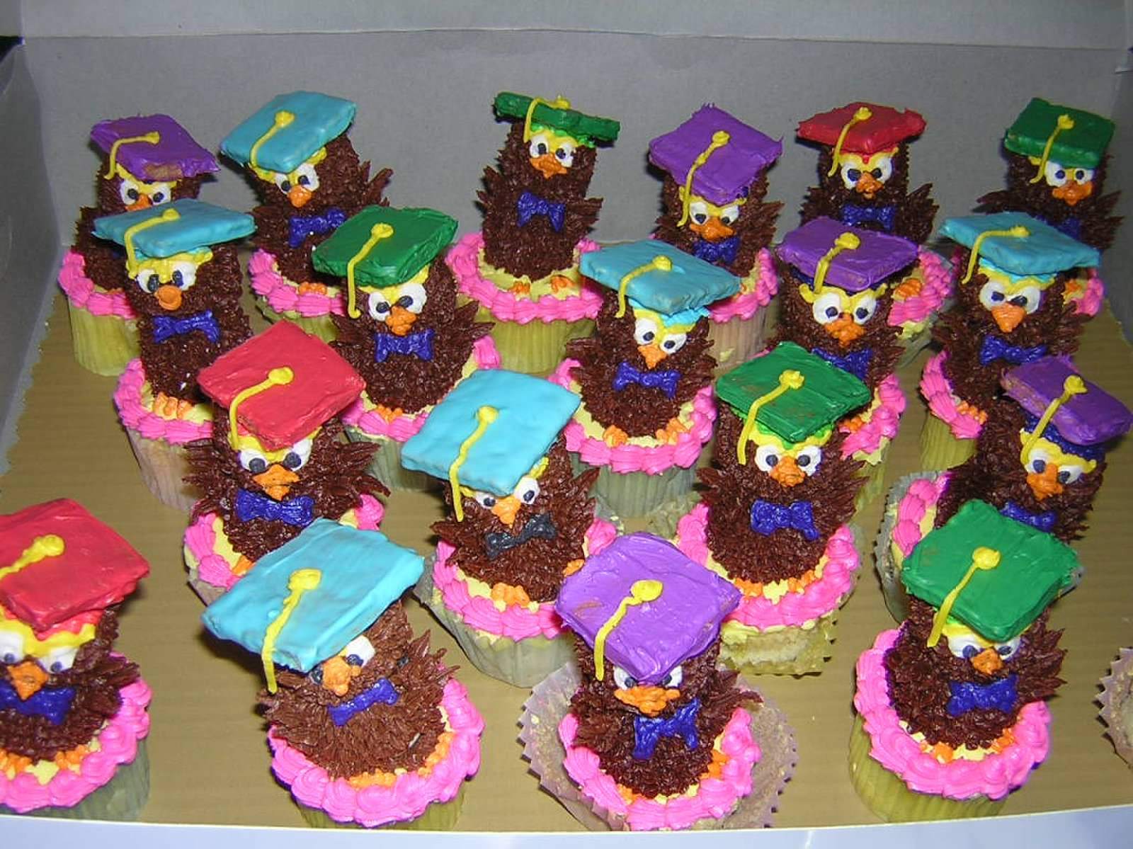 Fancy cupcakes made in paper cups